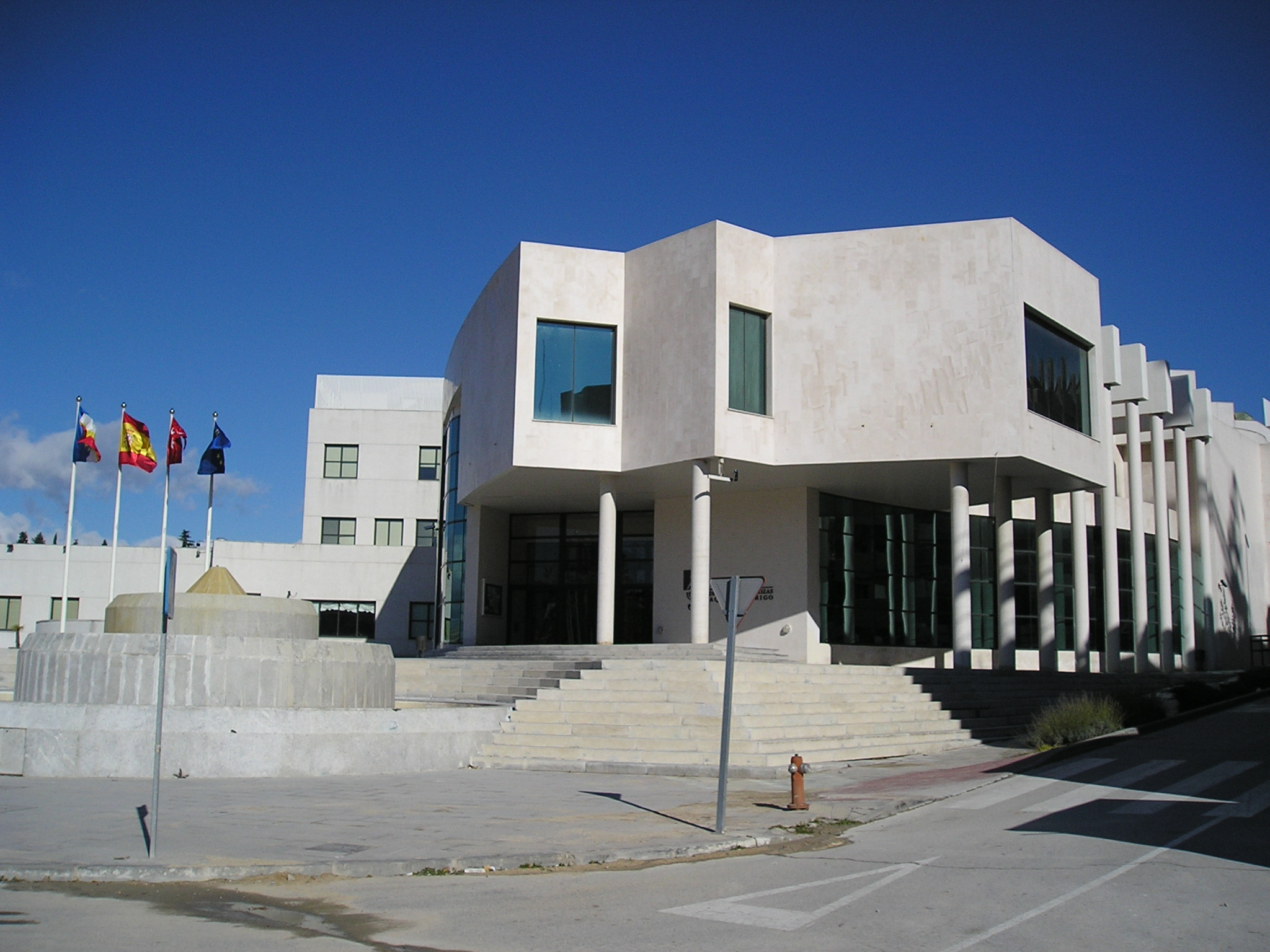 Joaquín Rodrigo Auditorium in Las Rozas (Community of Madrid, Spain).